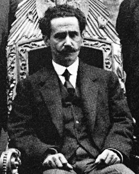 Francisco Lagos Chazaro, President of Mexico by the Convention of Aguascalientes